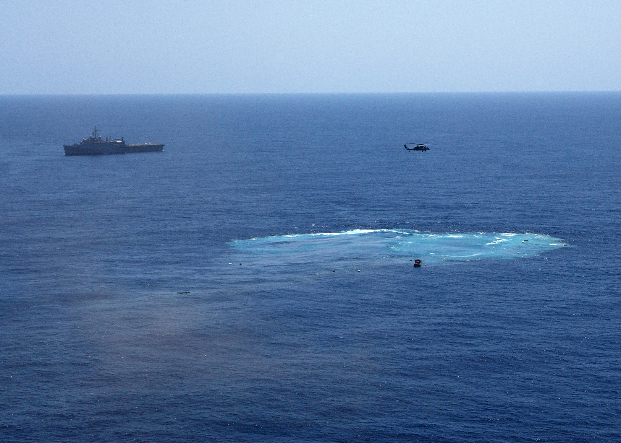 Atlantic Ocean (May 14, 2005) – The decommissioned aircraft carrier, USS America (CV 66) was “laid to rest” after being sunk at sea. America was the target of a series of tests designed to test new defense and damage control systems for the CVN-21 program. The conventionally-powered carrier, left active service in 1996. U.S. Navy photo by Photographer’s Mate 2nd Class Michael Sandberg (RELEASED)